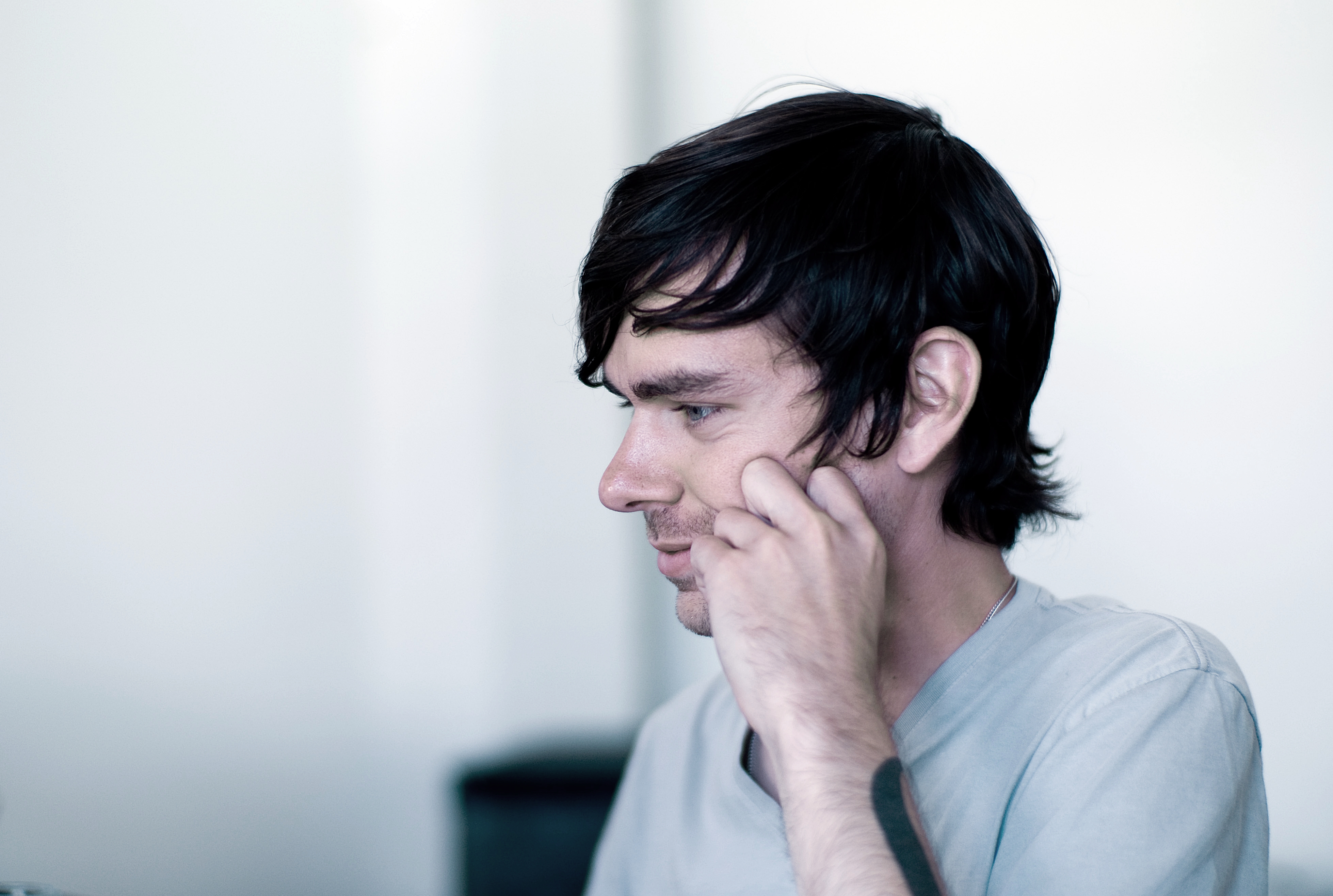 Jack Dorsey, a co-founder and the chairman of Twitter, in San Francisco, California, USA in 2008